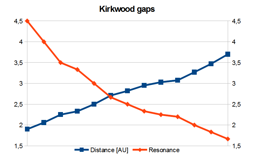 Kirkwood gaps - relating the distance from the Sun and Jupitern orbital resonances in respective distances